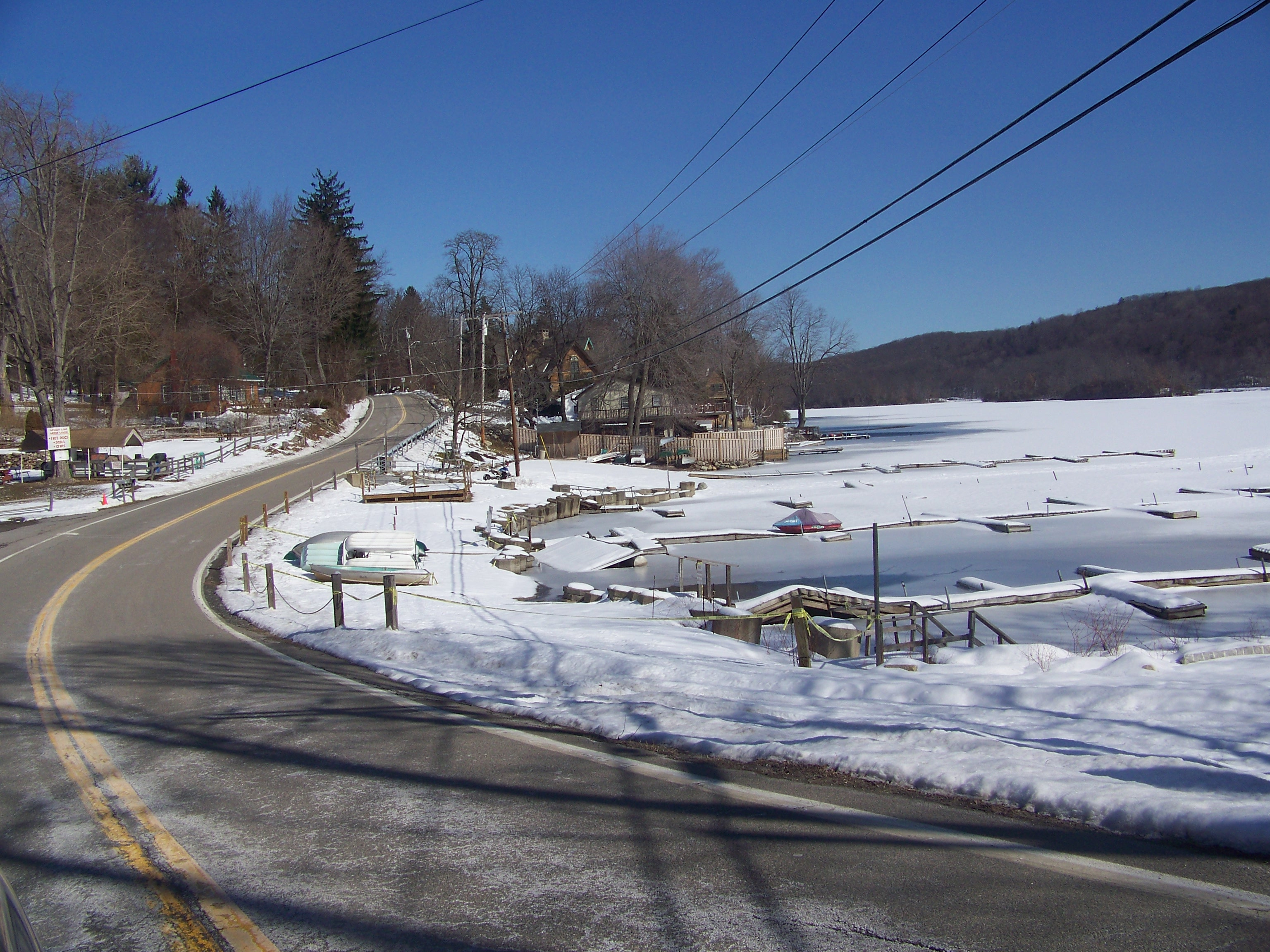 A view of New York State Route 292 in Dutchess County, New York, United States, looking north, along side Whaley Lake